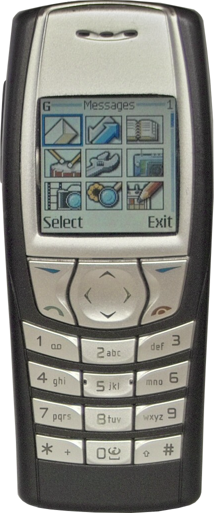 Nokia 6610i, photographed by ed g2s • talk.